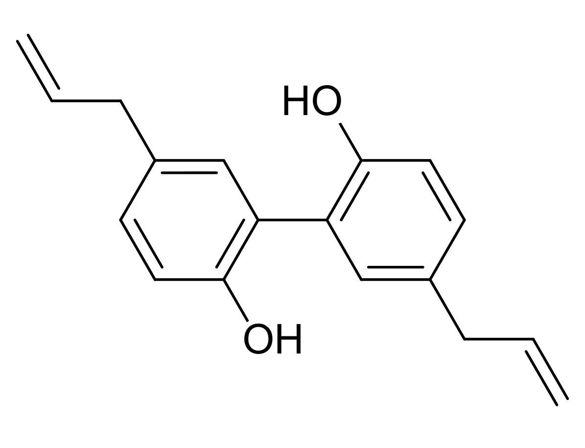 Chemical structure of magnolol